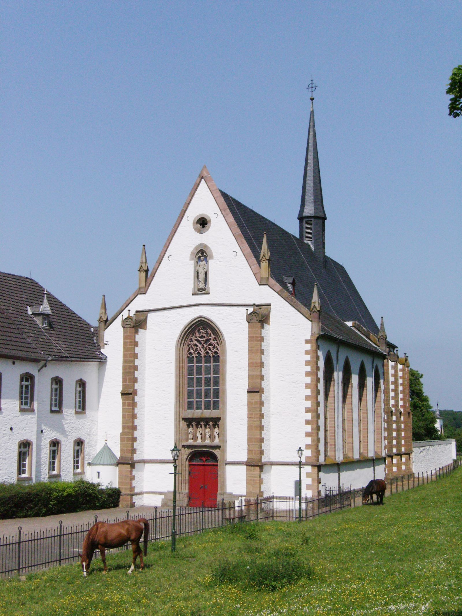 Mariawald abbey, Heimbach, Germany